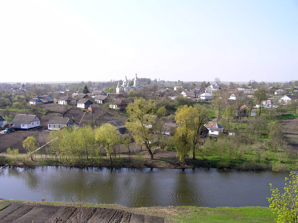 Landscape of Korchyk river and Novyj Korets village. There are Saint Paraskeva's Pyatnitsa church on the background.